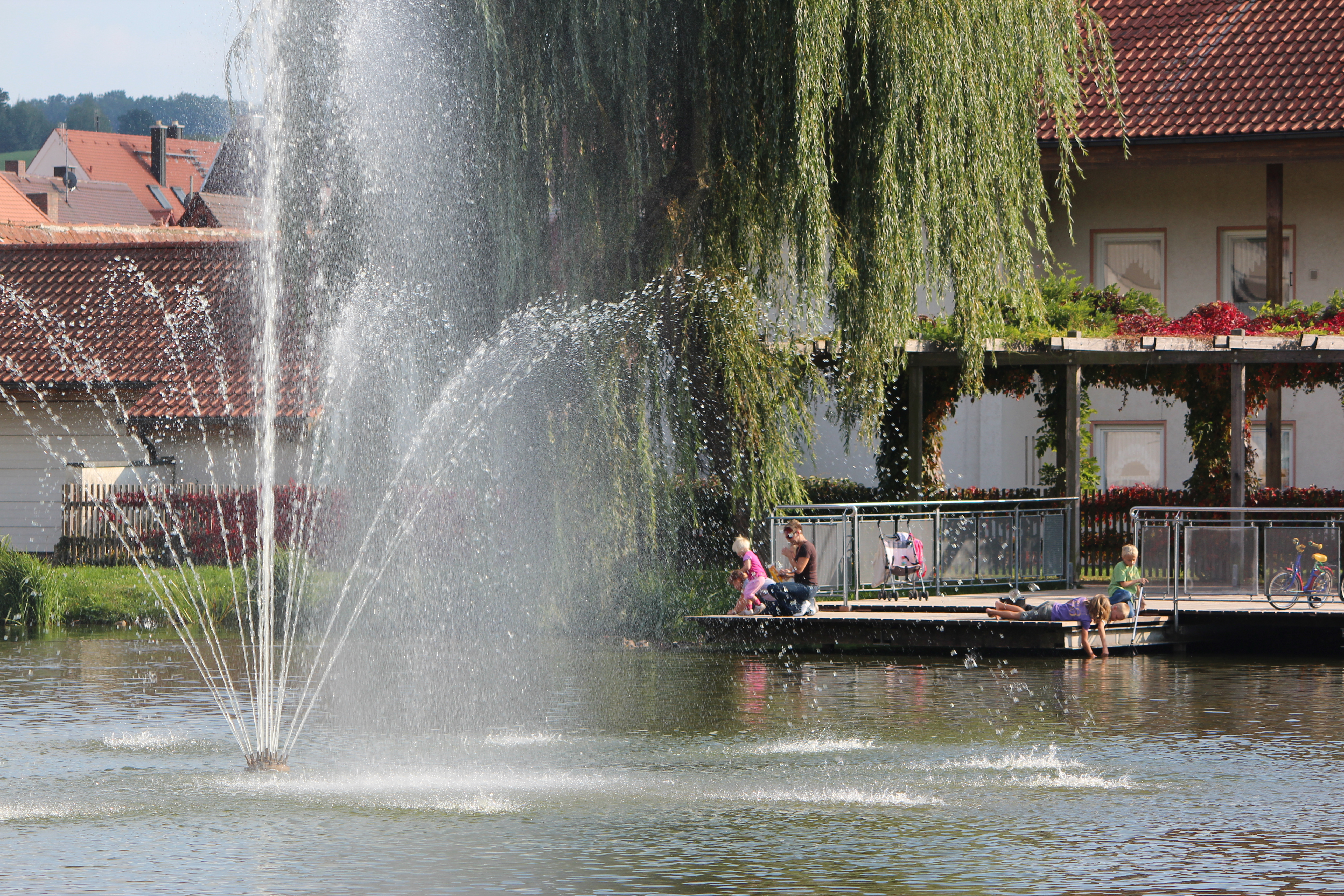 water fountain at Heidecker wäschweiher (pond)